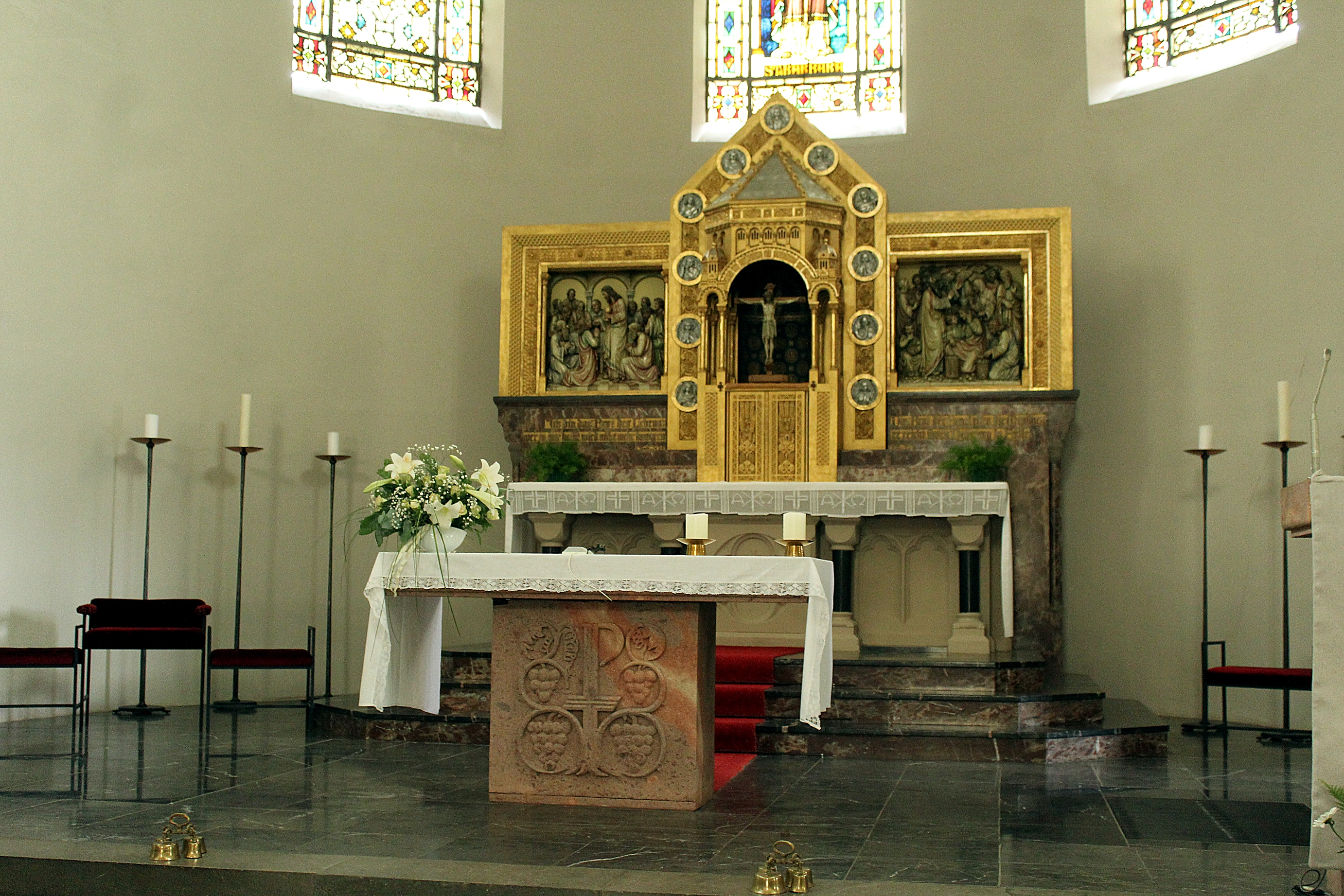 Helbra, Catholic church St.Barbara, main altar